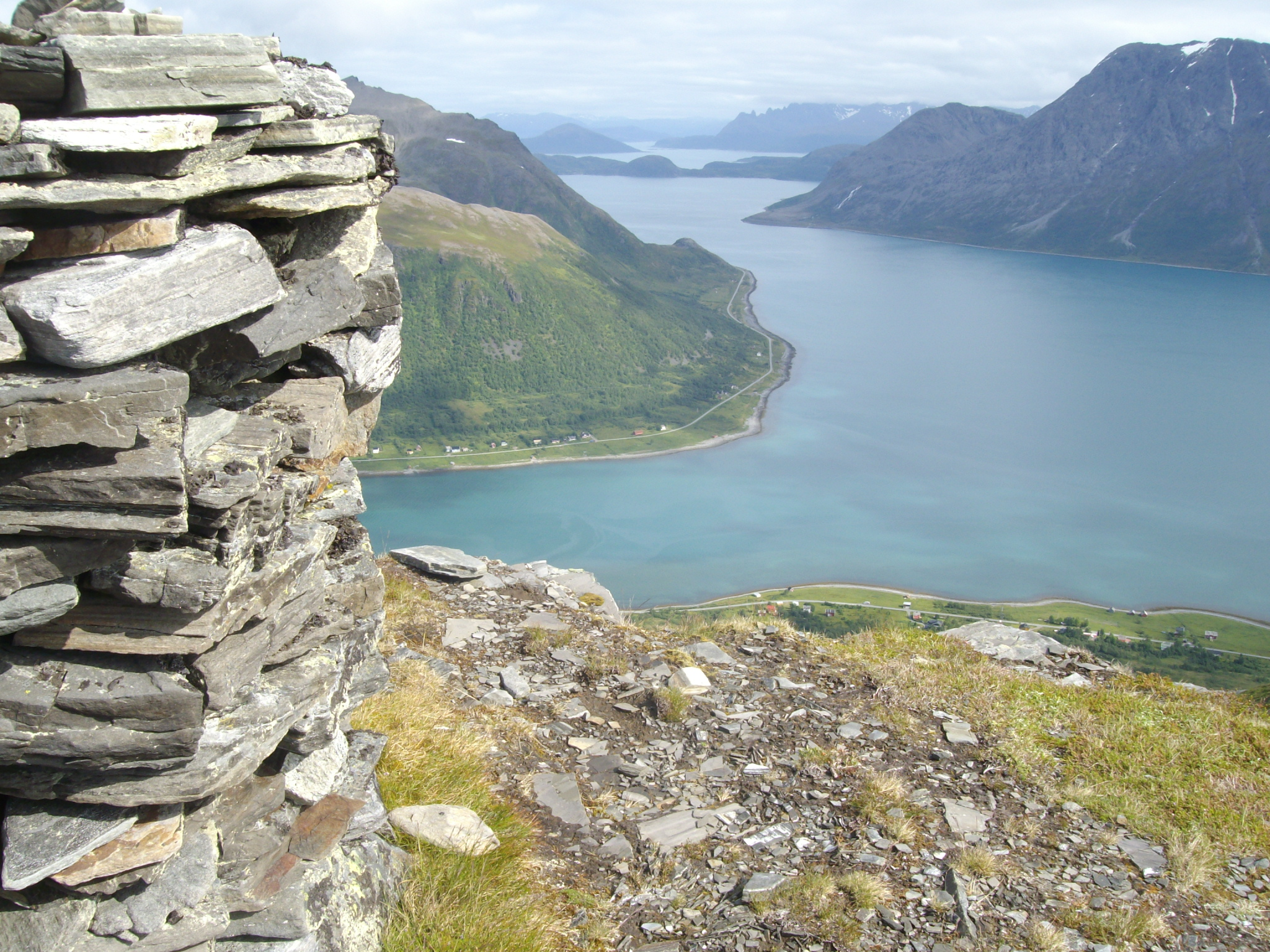 View of Arnøyhamn and the strait Kågsundet from Kjedalsfjellet at Arnøya, Skjervøy, Troms, Norway